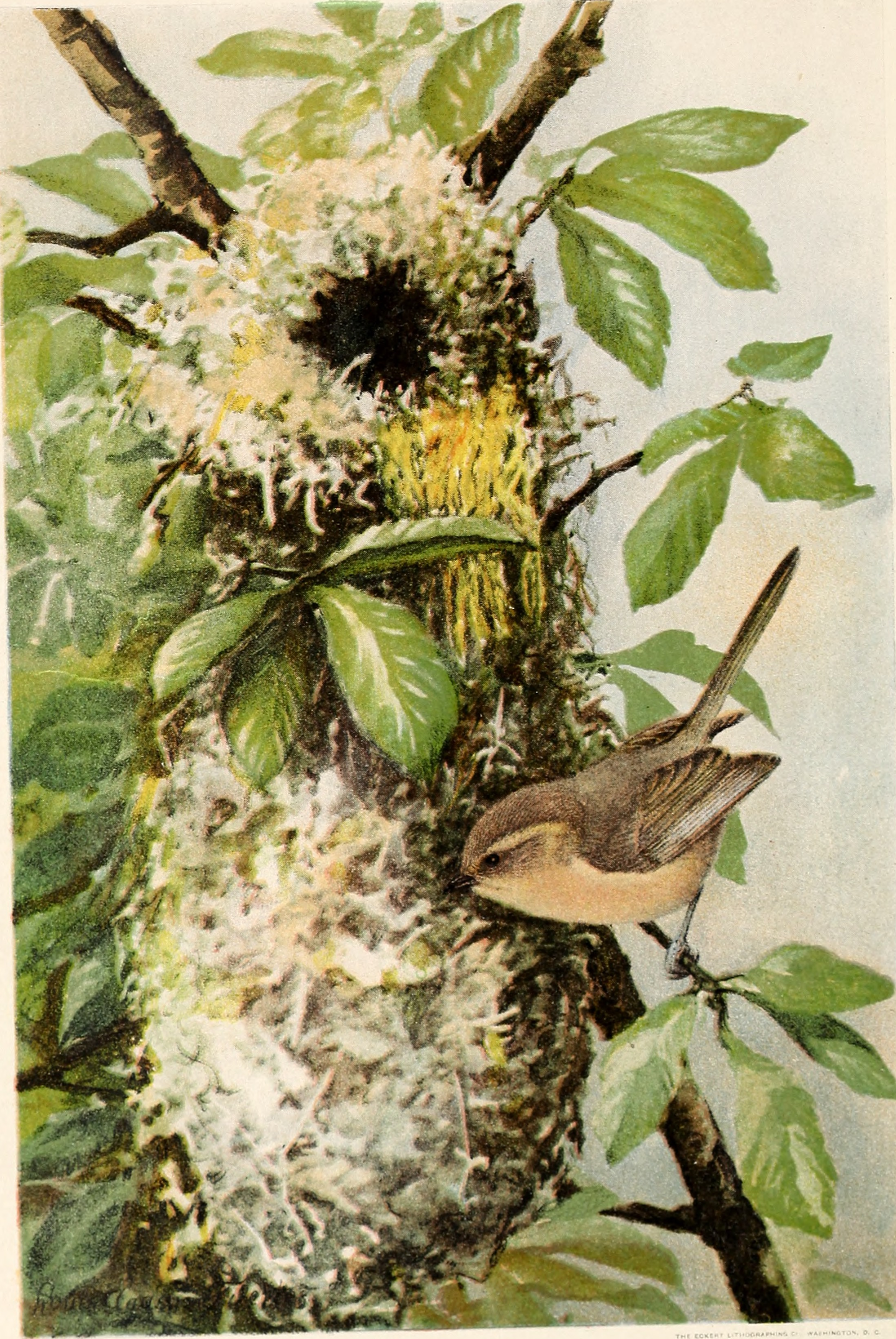 Title: Birds of California in relation to the fruit industry Year: 1907 (1900s) Authors: Beal, F. E. L. (Foster Ellenborough Lascelles), 1840-1916 Subjects: Birds; Fruit Publisher: Washington, D. C. : U. S. Dept. of Agriculture, Biological Survey Text Appearing Before Image: rical Survey. U. S. Dept. of Agriculture Plate I. Text Appearing After Image: CALIFORNIA BUSH-TIT (PSALTRIPARUS MINIMUS CALIFORNICUS).